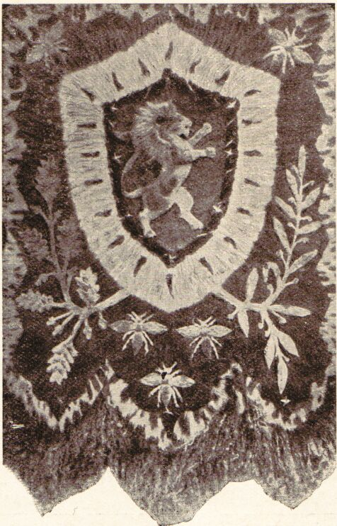 Fur pennant / Fell-Fahne aus Mosaik. Fot. Repr. 1/7 nat. Größe (Foto 6 x 9 cm). Ausgeführt von Hans Larisch, Frankenstein, Schls. Der Grund ist flacher schwarzer Hund, die Zacken der Einfassung flache Leopardenstücken. Löwe, Kranz und Bienen sind aus nat. Otter geschnitten; die Einfassung des Wappens ist aus Hermelin. Als Frange ist Thibet verwendet. Ausgeführt im Jahre 1902. Der Ausführung liegt der alte trotzige Handwerksspruch zugrunde: Wie die Bien`bei Müh`und Arbeit, Wie der Leu im Kampf und Streit. Banniere. Reprod. photo, 1/7 grandeur nat. Faite par Hans Larisch, Frankenstein, Silésie, vers 1902. Le fond est en chien noir, les dents du cadre, en léopard. Le lion, la couronne et les abeilles, en loutre de riviére. L'encadrement du blason est en hermine et la frange en thibet. L'execution de ce travail a éte conçue d'aprés la fière et vielle devise du métier: Comme le lion, en bataille Et au travail, comme l'abeille. Banner. Photograph representing 1/7 of naturel size. Executed by Hans Larisch of Frankenstein, Silesia, in 1902. The ground is of black dog`s skin; the spikes of the frame-work being of leopard-pieces. The lion and crown and the bees of common otter. For the trimming of the blazon, ermine has been used and the fringes are in Thibet In executing this work and old and proud motto of the trade has been conceived: As the bees work in the hives As the lion in the battle strives.